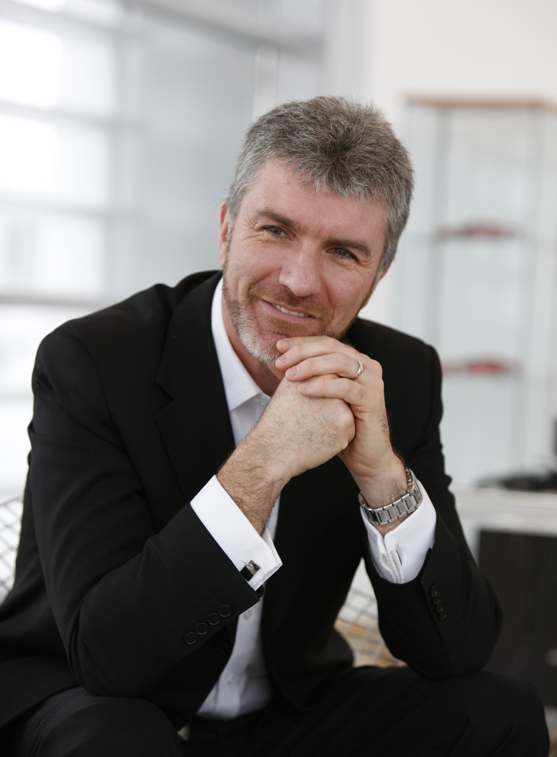 Mark Adams, Car Designer at General Motors